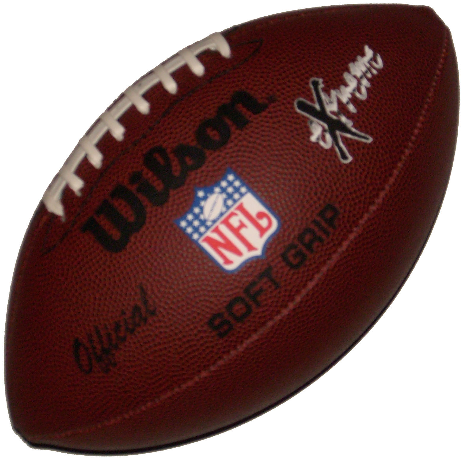 Wilson official NFL extreme football